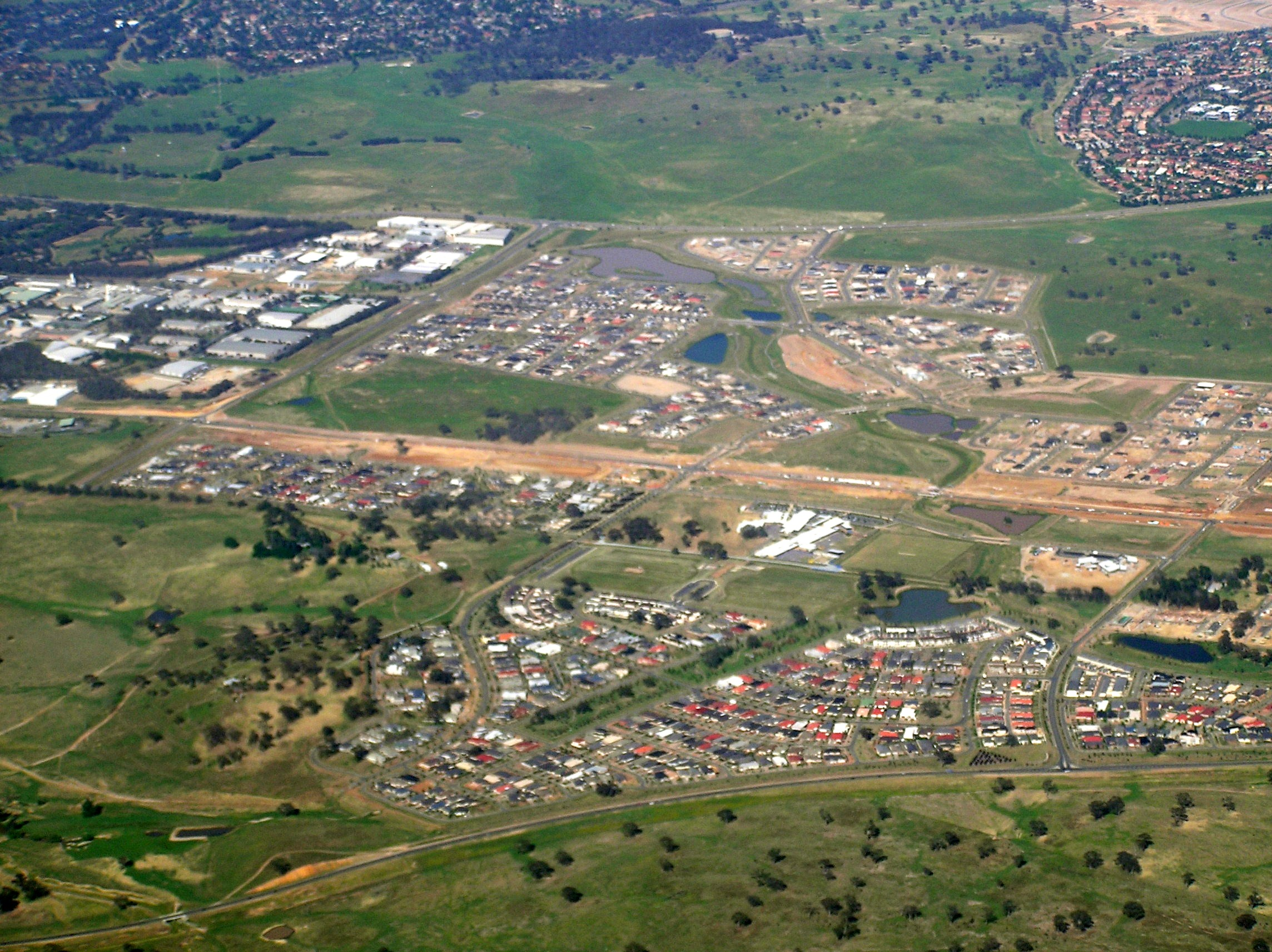 Aerial view of Harrison, Australian Capital Territory and Franklin, Australian Capital Territory from north east, Mitchell on left, Palmerston on top right